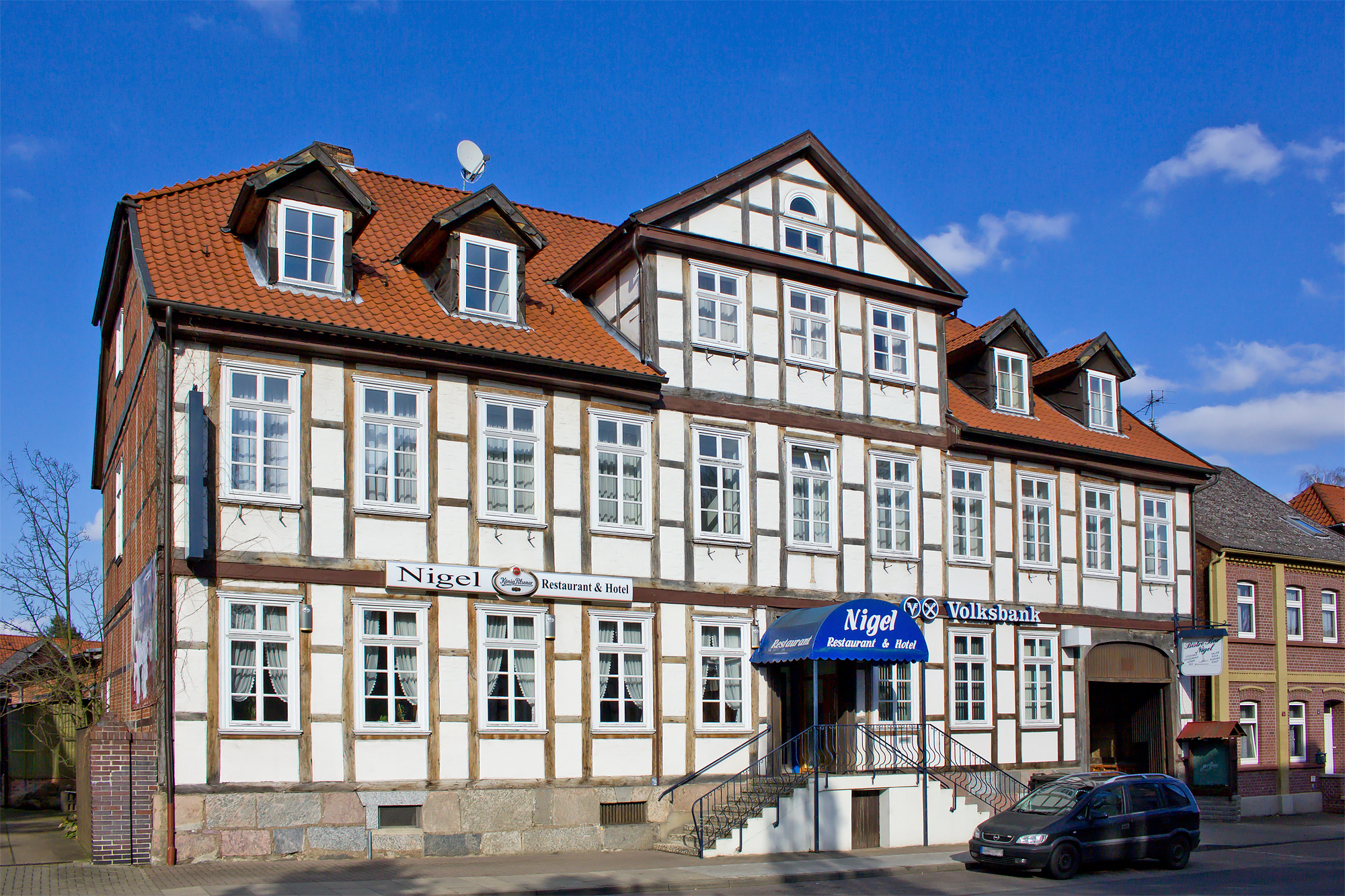 Building "Breite Strasse 9" in Bergen/Dumme (district Lüchow-Dannenberg, northern Germany); a cultural heritage monument.